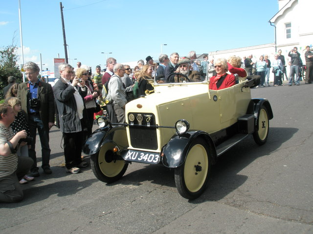 Trojan Utility Car, as built after 1922; A car I have known for 45 years